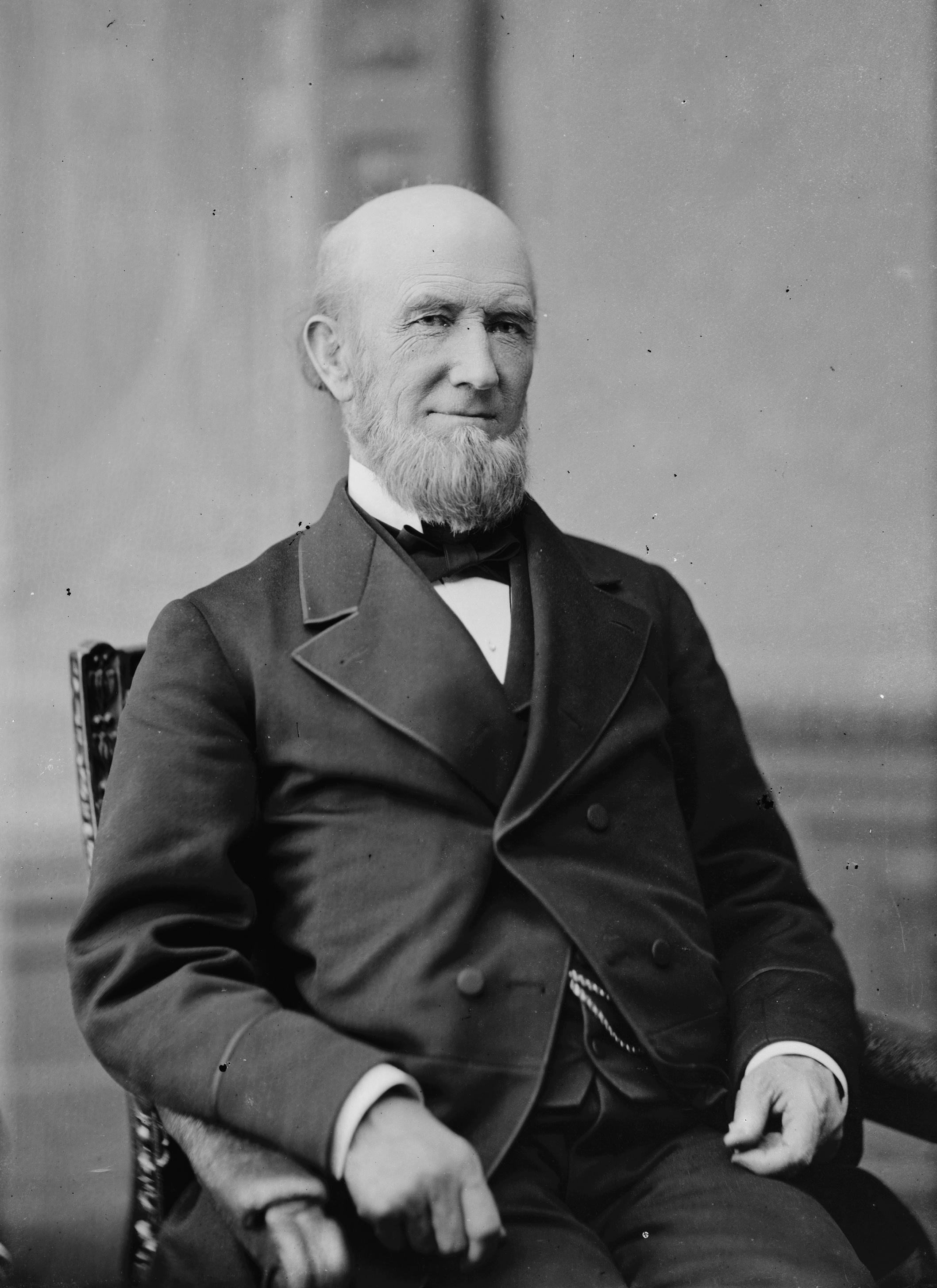 James Buchanan Eads. Library of Congress description: "Eads, Hon. James B. of MO. (Built the St.Louis Bridge)"